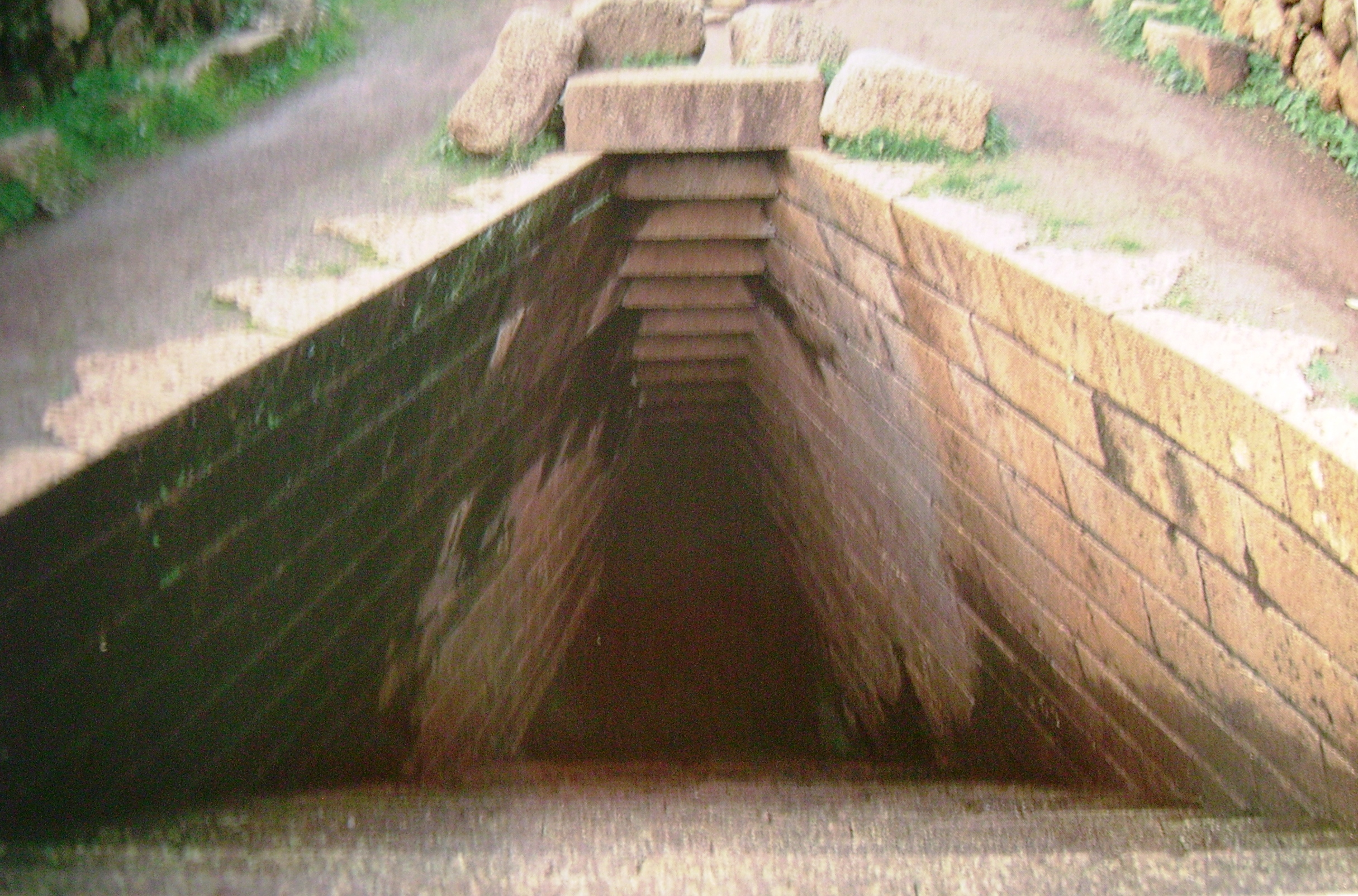 Paulilatino Sardinia Italy Pozzo Sacro Santa Cristina Own work - by --Shardan 02:13, 12 November 2006 (UTC)